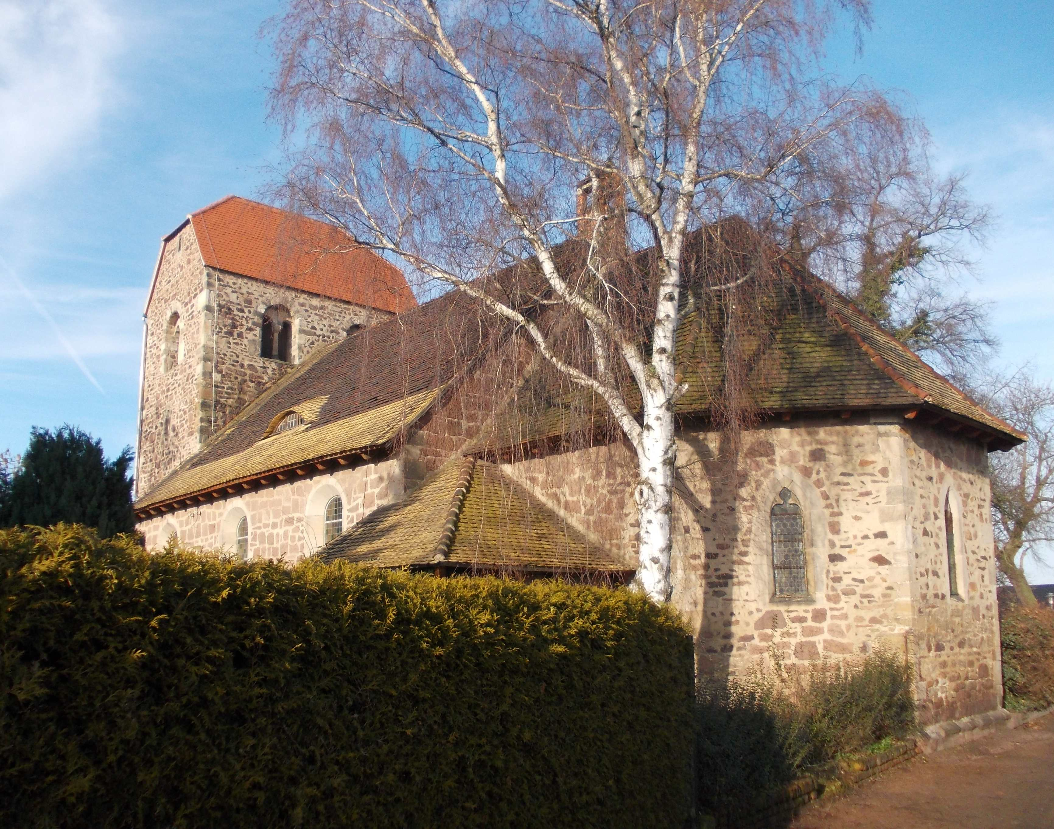 Saint Wenceslaus Church in Nauendorf (Wettin-Löbejün, district: Saalekreis, Saxony-Anhalt)